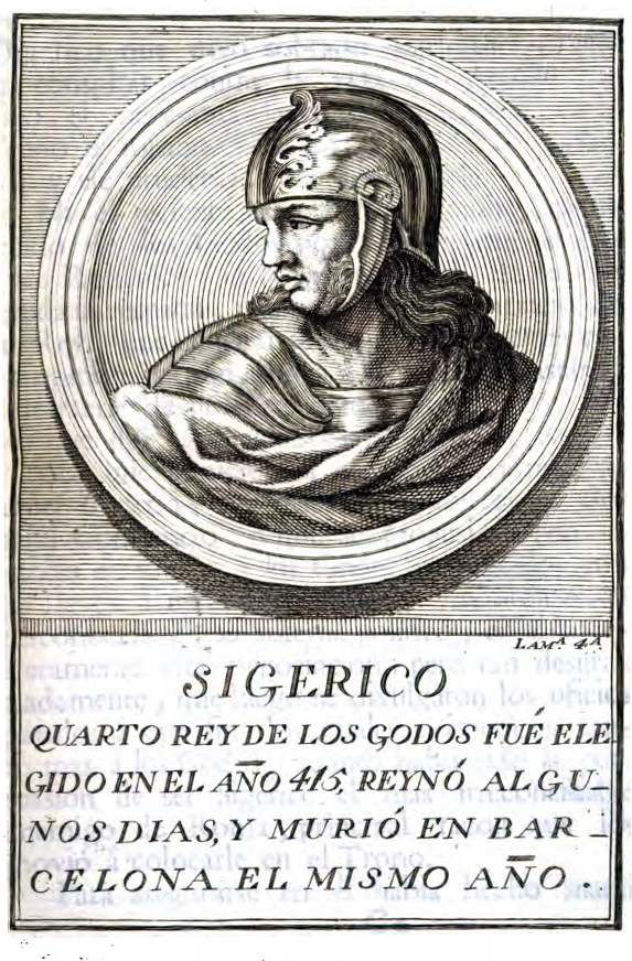 A poster of SIGERICO, Visigoth king, n° 4 in the chronological order of the book digitalized by Google since the bookshop in the University of Oxford.